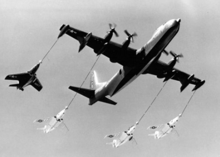 A U.S. Navy Convair R3Y-2 Tradewind set a record by simultaneously refueling four Grumman F9F-8 Cougar fighters in September 1956.